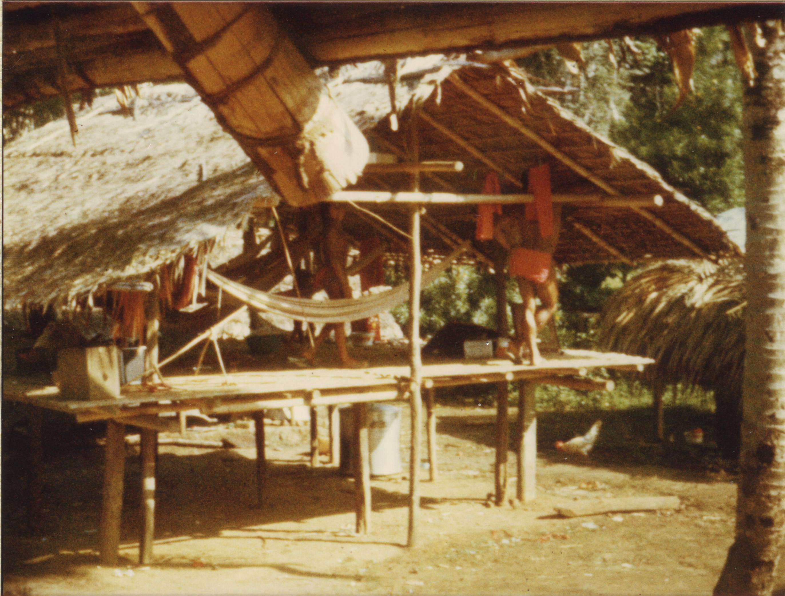 Photo taken in 1979. Daily life in the Wayana village of Antecume Pata in French Guiana. A hut in the village.